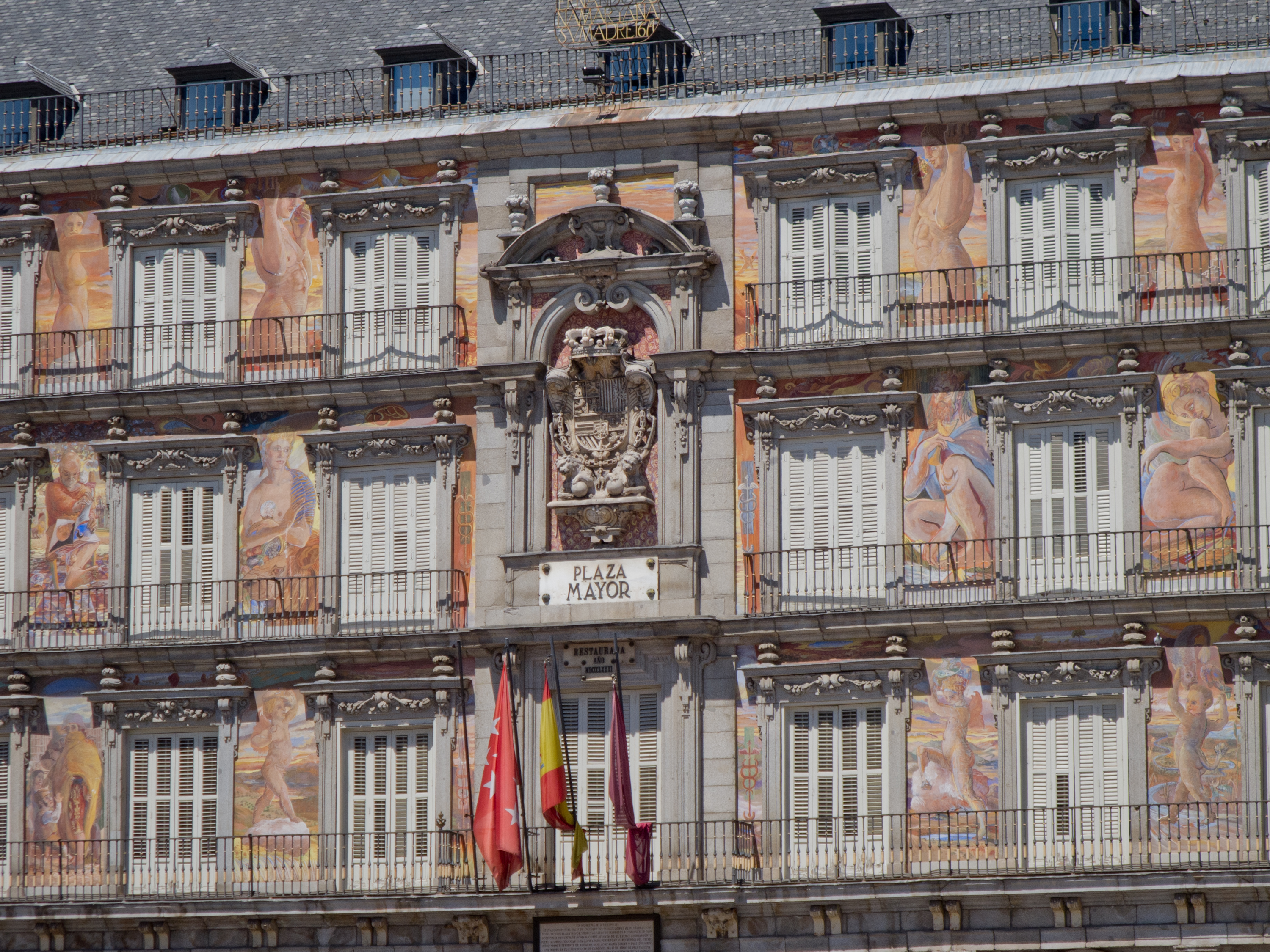 Casa de la Panadería, Plaza Mayor, Madrid, Spain.